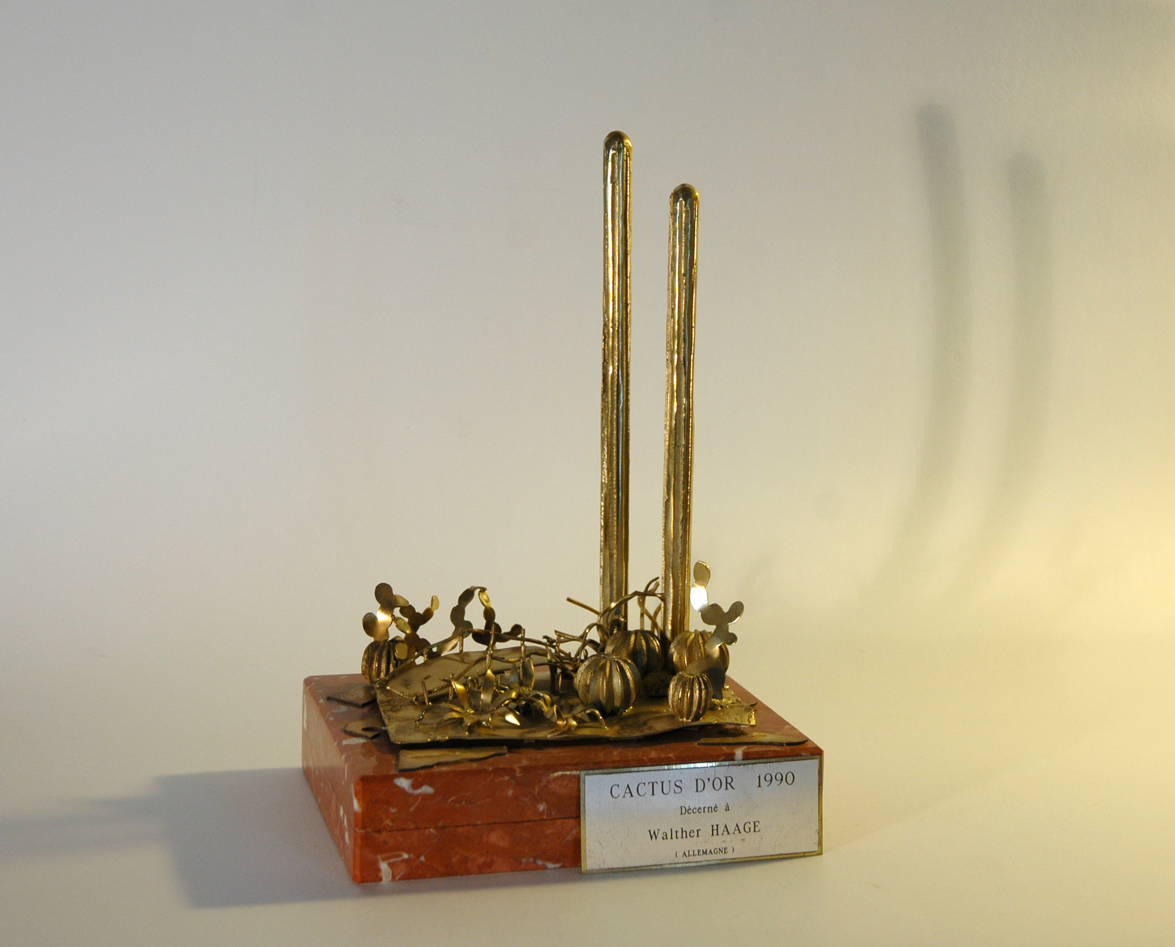 The golden cactus - presented in 1990 to Walther Haage